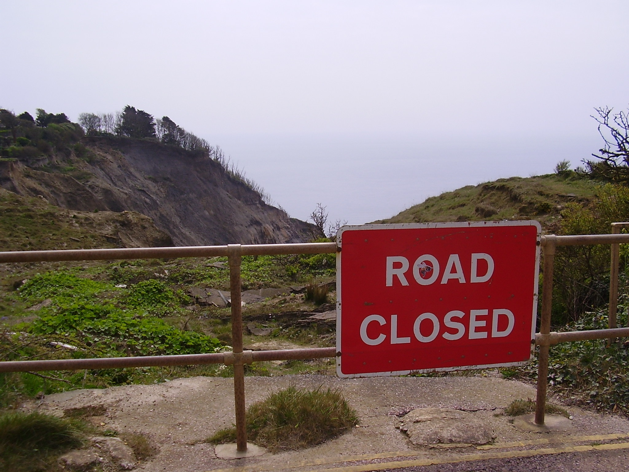 Road at Blackgang, Isle of Wight, UK, cut off by landslip